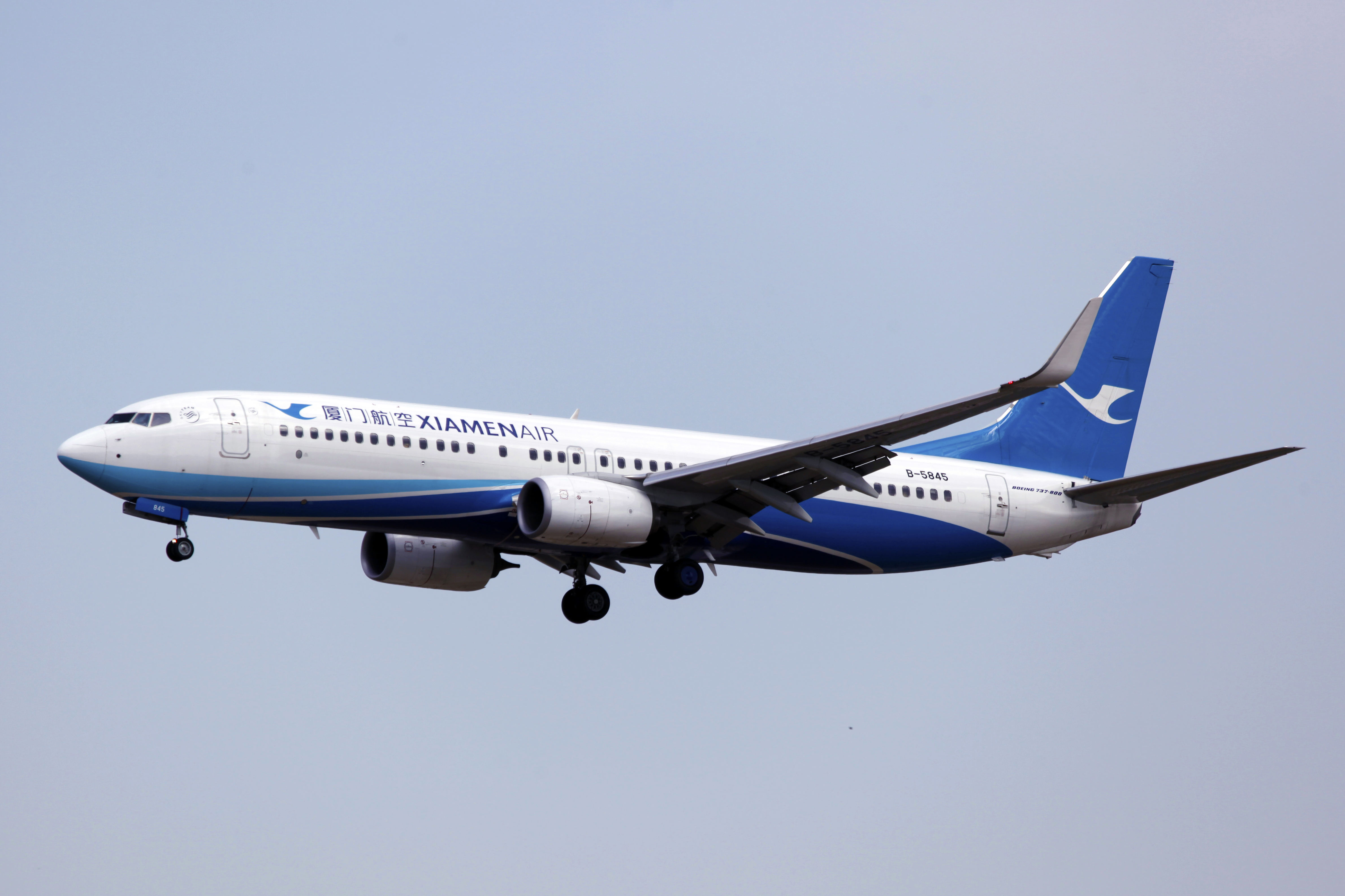 B-5845 | Xiamen Airlines | Boeing 737-85C(WL) | Beijing Capital International Airport [PEK]